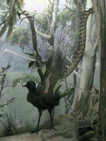 Description: Superb Lyrebird - Source: own work - Location: AMNH, New York - Author: self, User:Stavenn